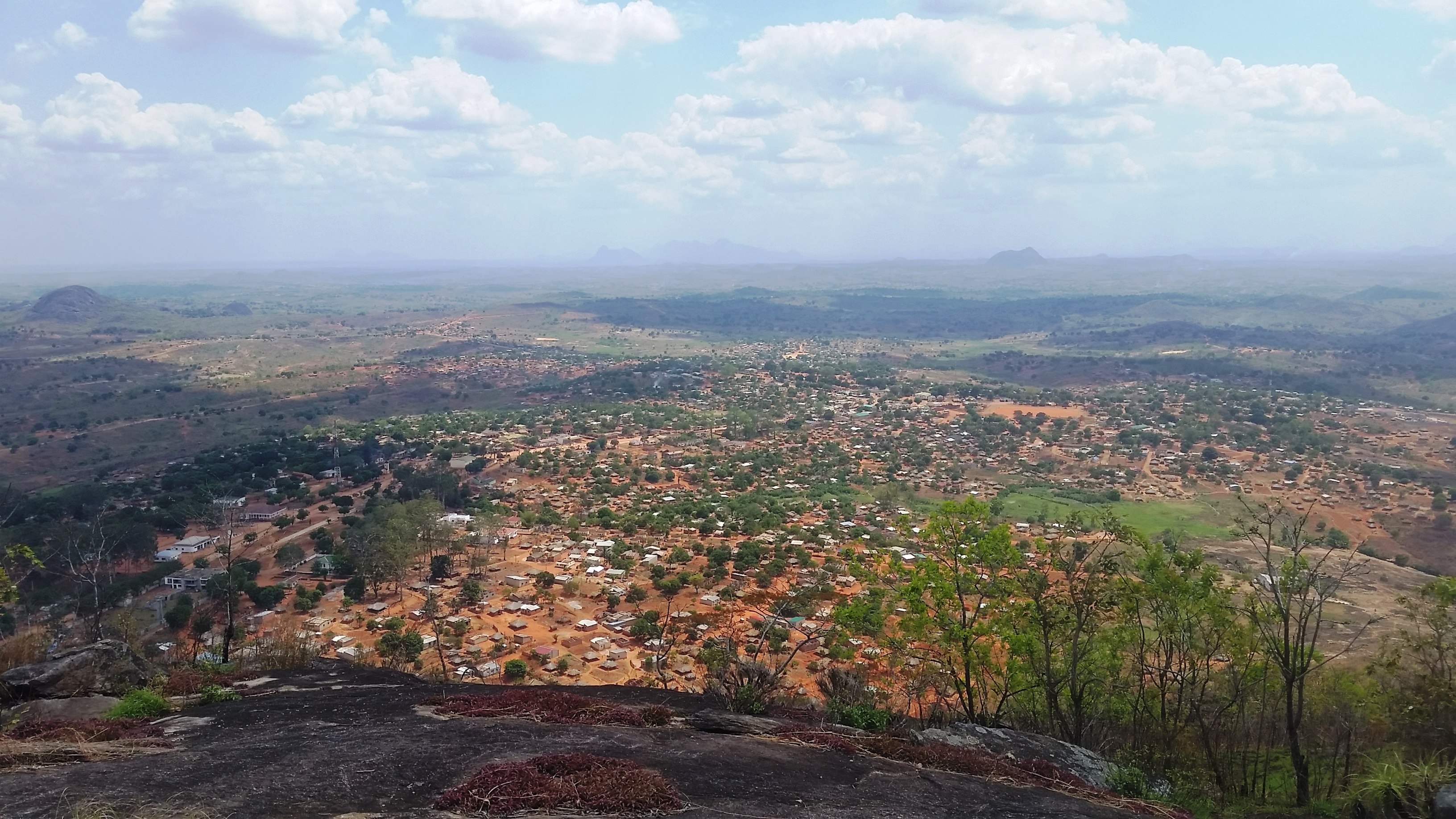 Ile (Errego), Zambezia, Mozambique. Photo taken in fall 2019 during the dry season. Photo taken of the district capital as viewed from Mt. Errego.